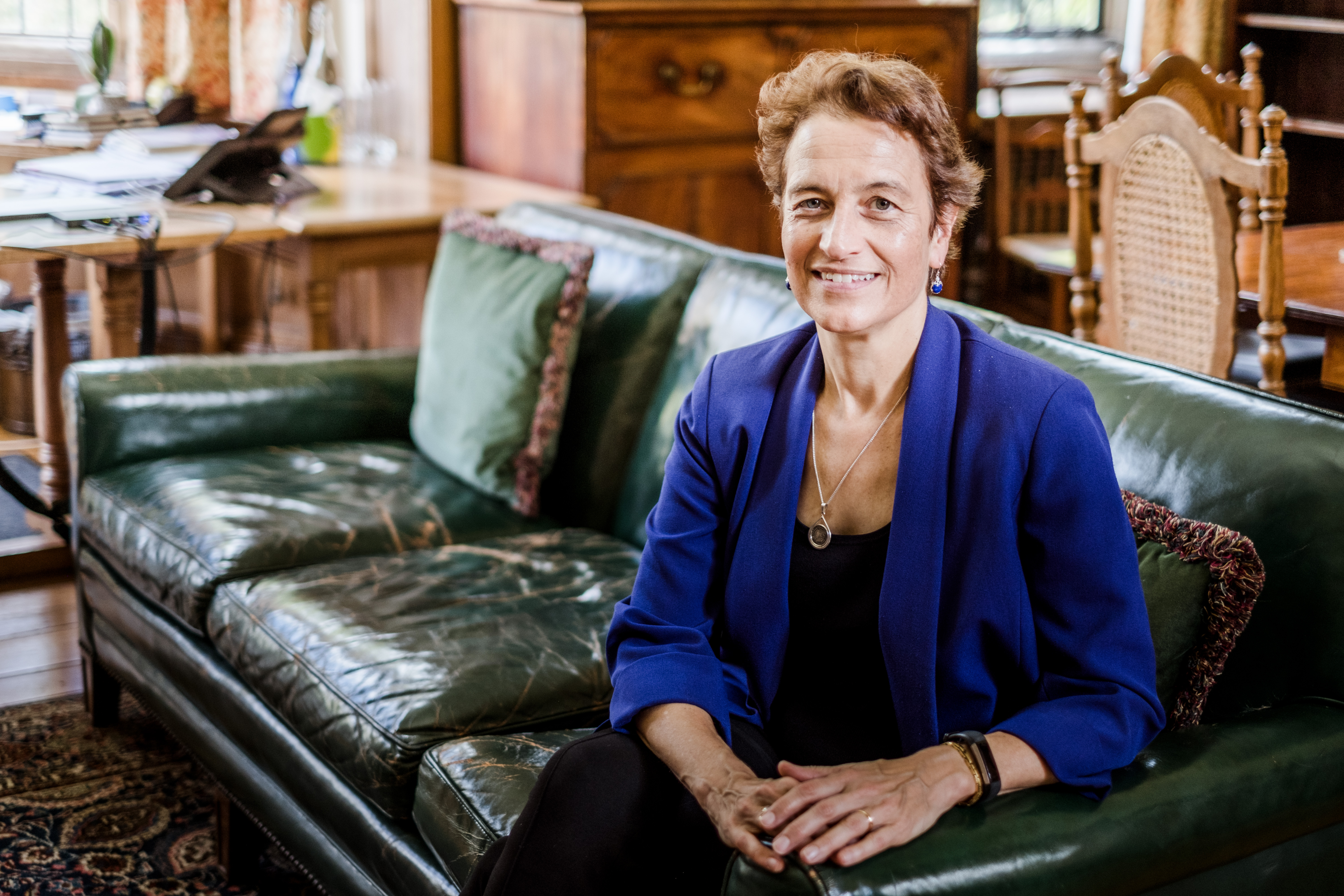 Elizabeth Kiss, American philosopher and first female Warden of Rhodes House, Oxford